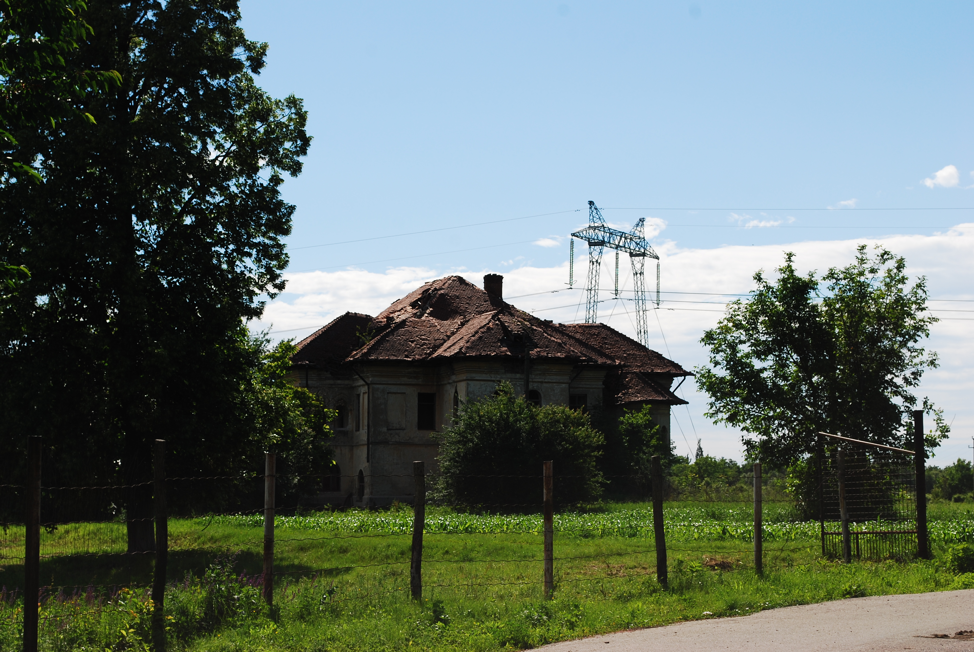 Costache Cantacuzino mansion in Râfov, Prahova County, RomaniaRomână: Conacul Costache Cantacuzino din Râfov, județul Prahova, România